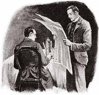 Sherlock Holmes in "The Five Orange Pips", which appeared in The Strand Magazine in November, 1891. Original caption was "HOLMES," I CRIED, "YOU ARE TOO LATE."